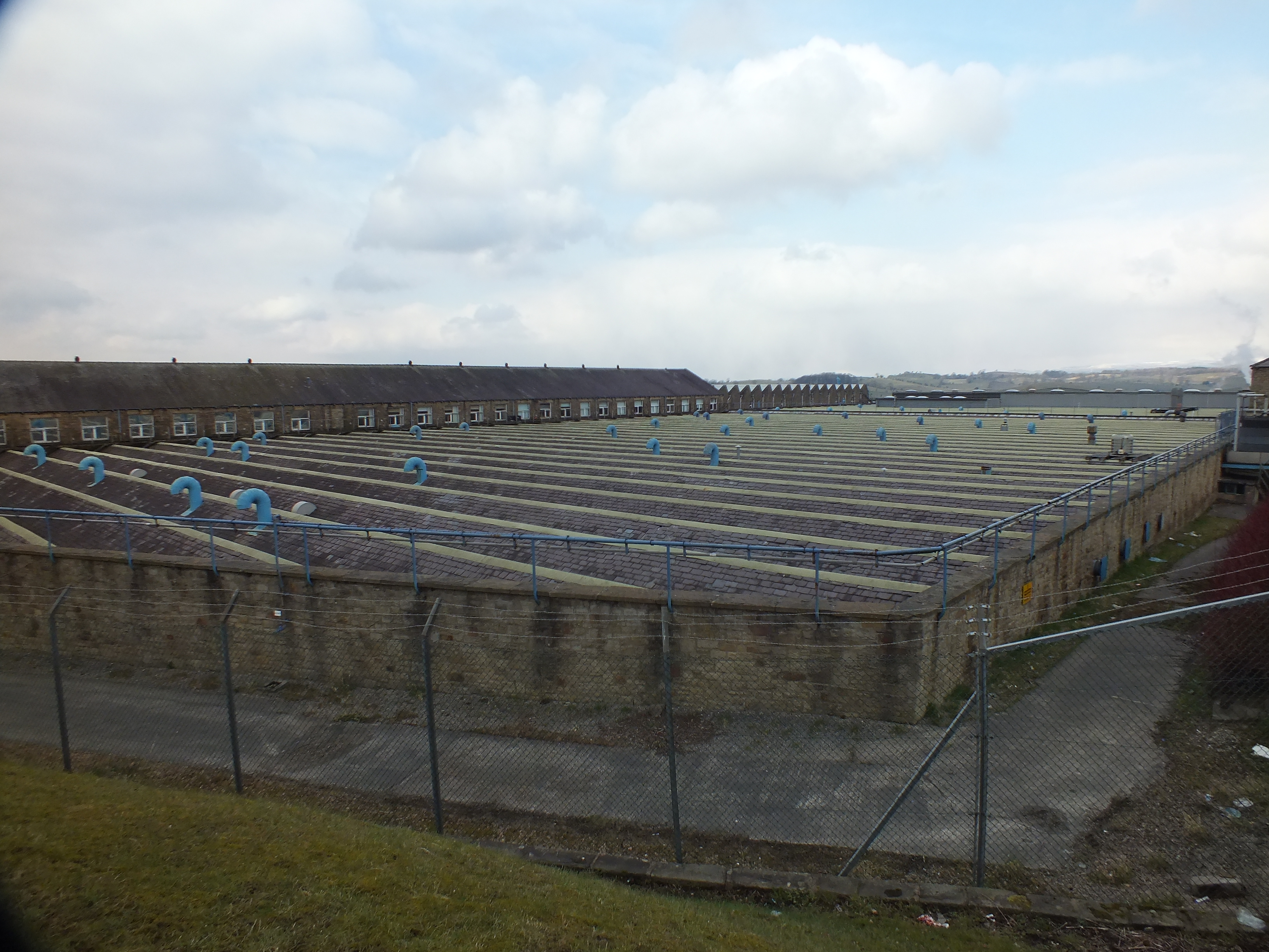 Barnoldswick Bankfield Site, the roof of the weaving shed